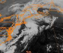 Edited from ftp://eclipse.ncdc.noaa.gov/pub/isccp/b1/.D2790P/images/1988/220/Img-1988-08-07-12-GOE-7-IR.jpg, this image shows Tropical Storm Alberto to the southeast of Massachusetts on August 7, 1988.